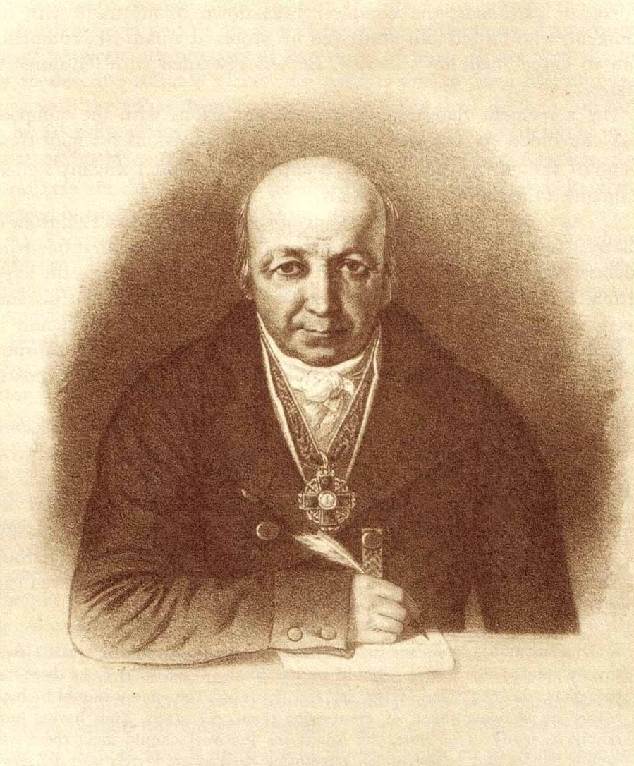 Alexander Andreyevich Baranov (1747–1819)